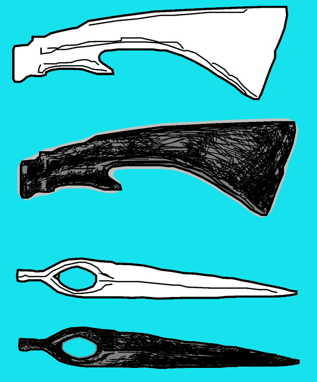 Adriatic type bronze ax from Montenegro -1500 BC to 500 BC